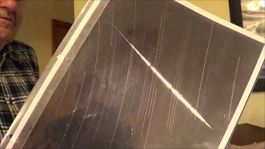 The photograph of the Lost City Meteor was taken by one of the (now-defunct) Priarie Meteorite Network cameras. In the background is the farmer who found two fragments of the meteorite. This photograph, given to him by the Smithsonian Astrophysical Observatory, is part of his personal scrapbook collection.